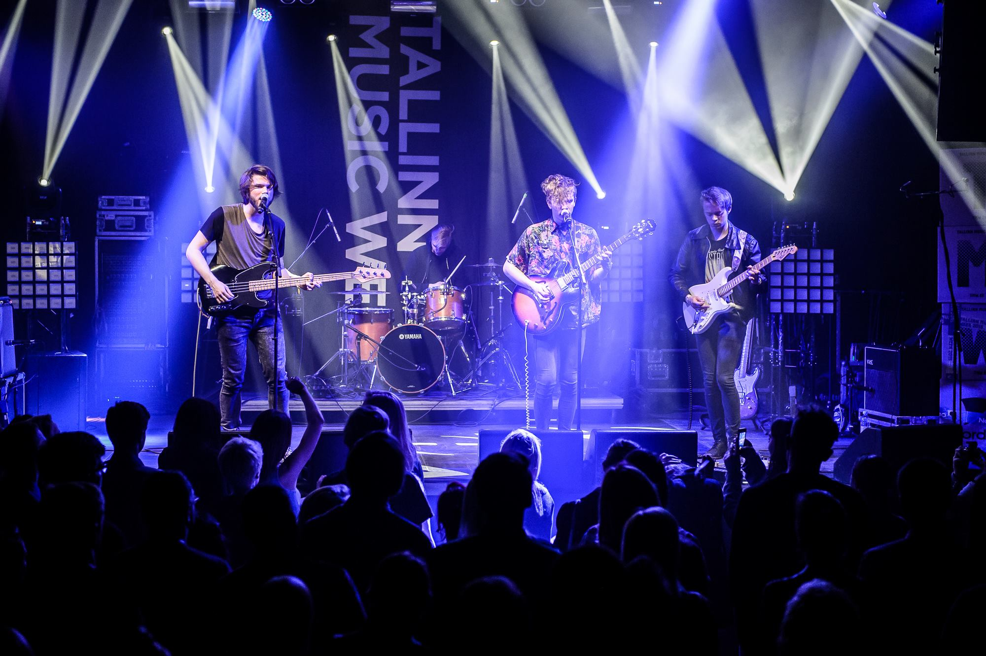 The Boondocks performing at Tallinn Music Week 2015. Photo by Mart Sepp.